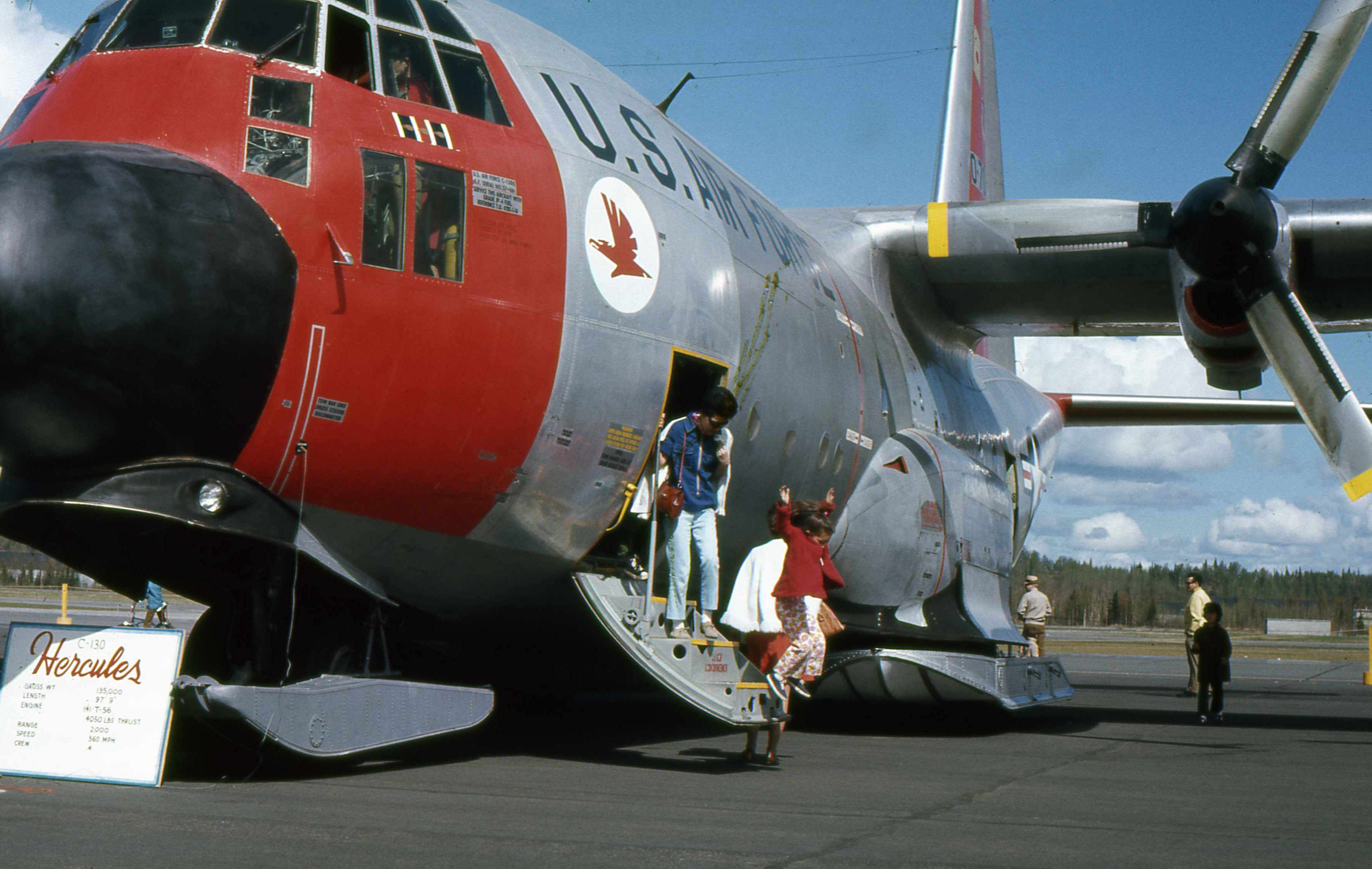 United States, Joint Base Elmendorf-Richardson. United States Air Force Lockheed LC-130 Hercules, nicknamed “Fire-Birds” because of the red birds painted on the fuselage, belonged to the 17th Tactical Airlift Squadron of the 21st Composite Wing, taken at the static display in Elmendorf Air Force Base “open day”.